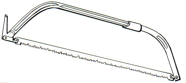 line art drawing